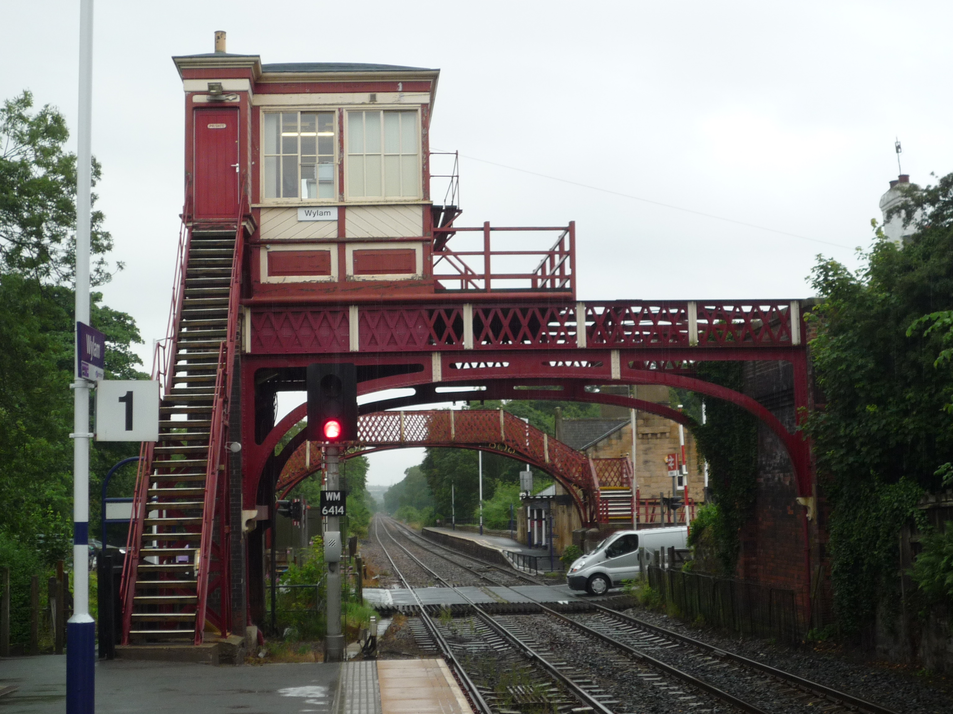 Wylam railway station in Wylam, Northumberland, England. Looking east from the east-, Newcastle-bound platform we see the signal box, footbridge and stationmaster's house.